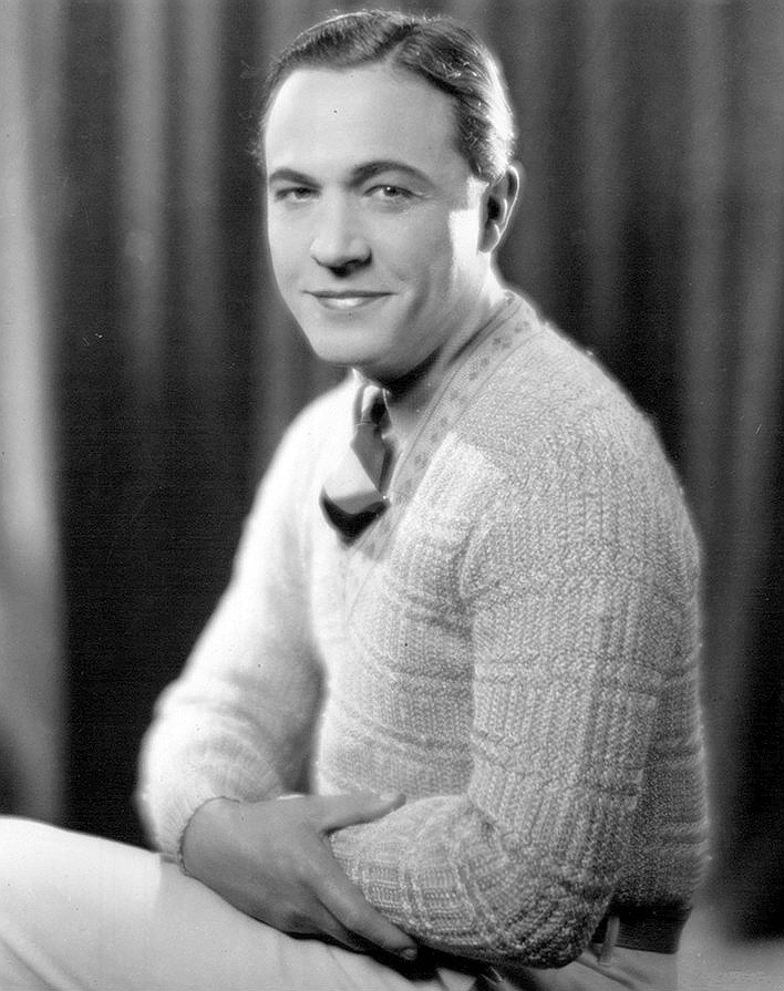 Photo of Jason Robards, Sr. The item has no copyright markings on it as can be seen in the links above.